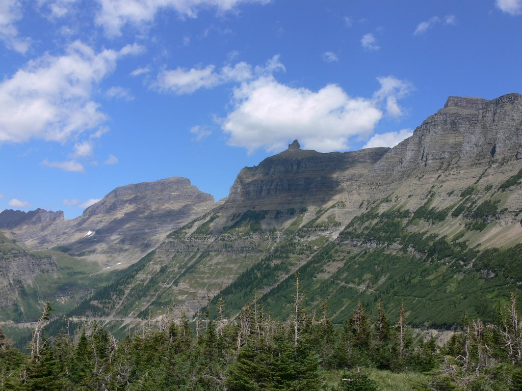 Glacier National Park, Montana, USA